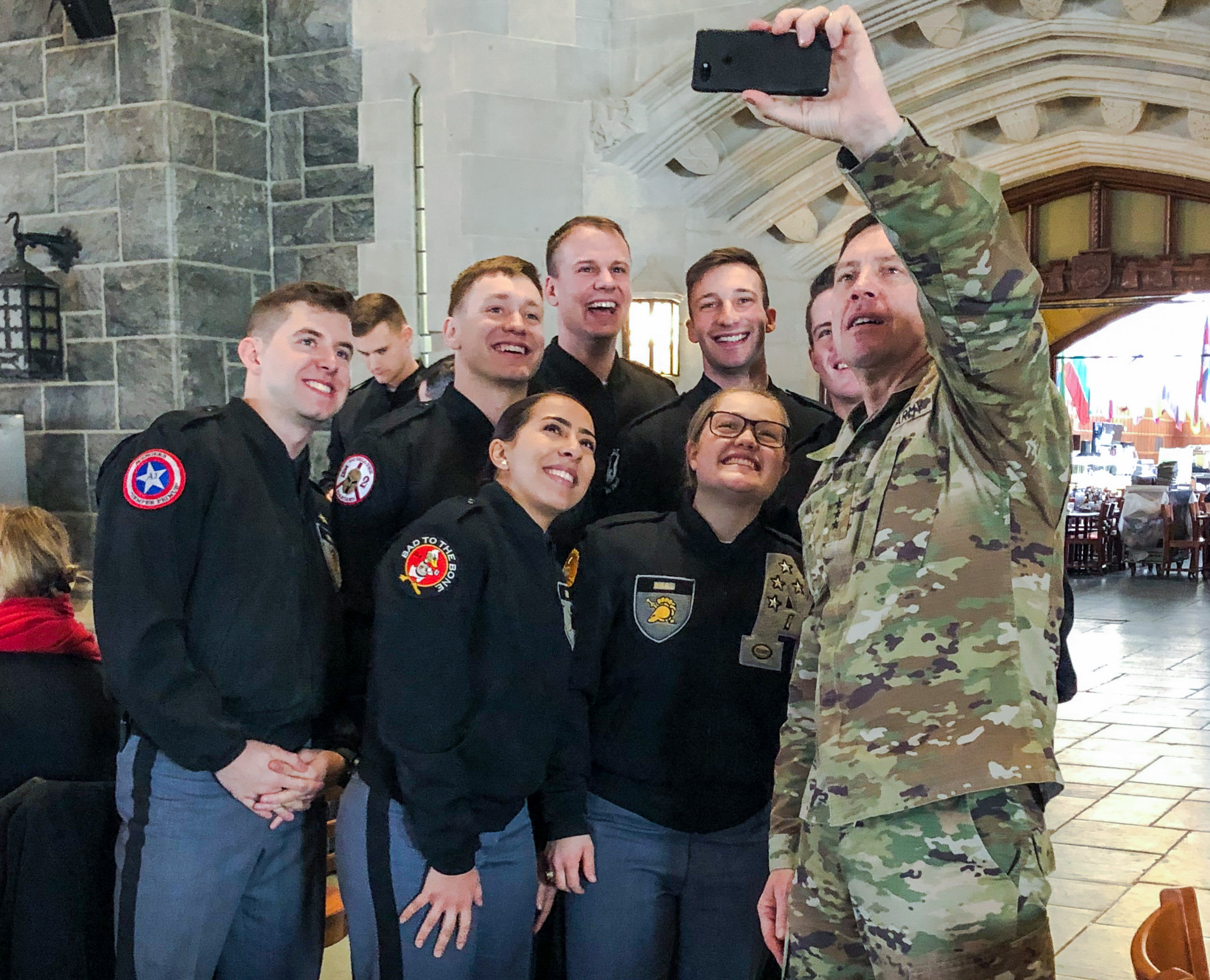 U.S. Army Lt. Gen. Eric J. Wesley taking a photo with West Point cadets following a discussion on Multi-Domain Operations.